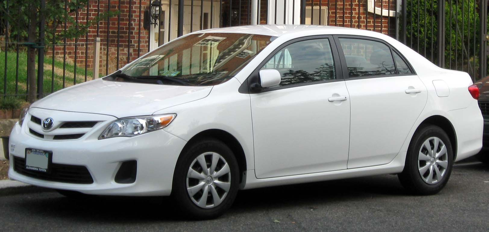 2011 Toyota Corolla photographed in Washington, D.C., USA.